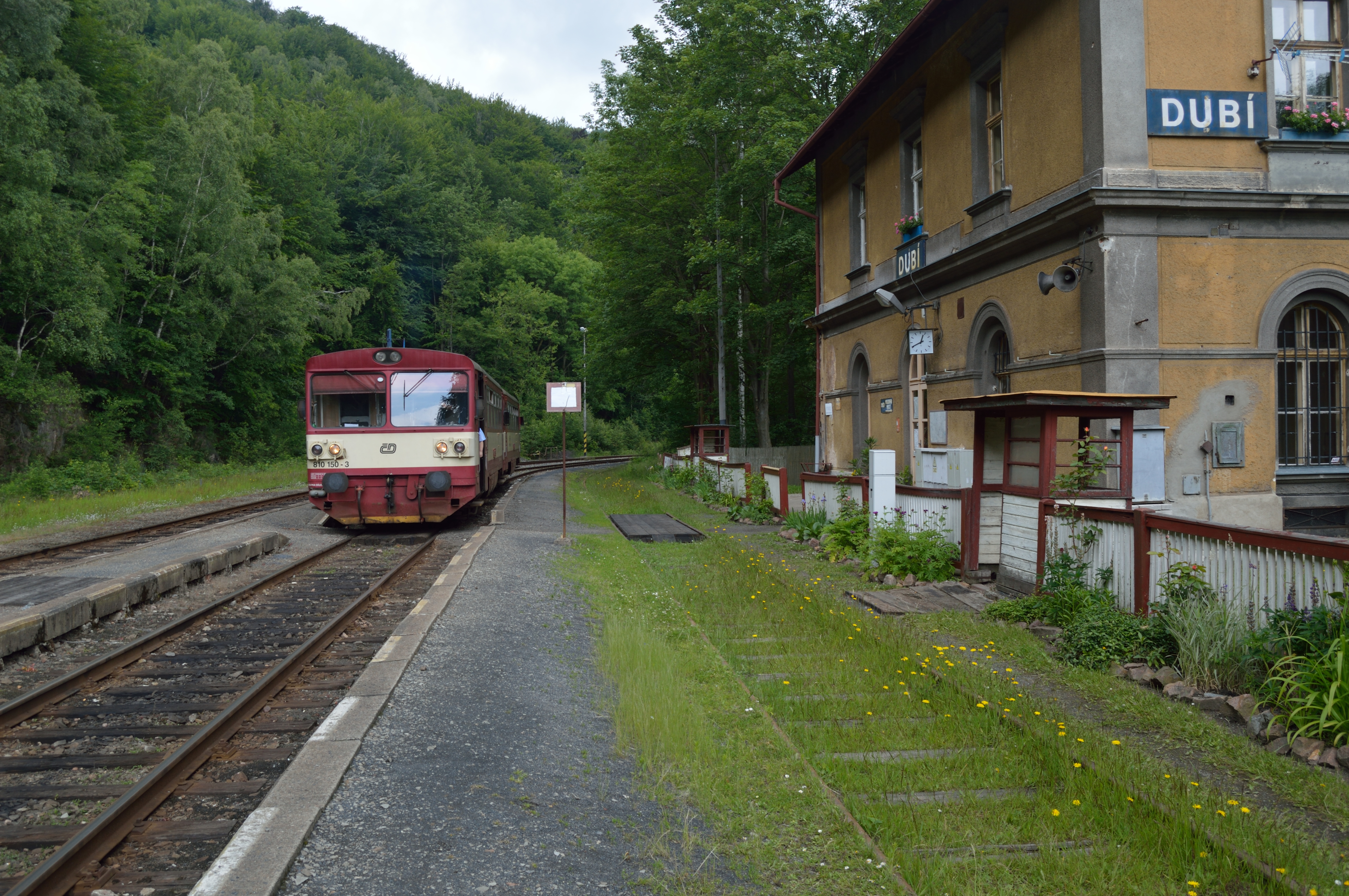 The branch through to Moldava v Krušných horách involves a reversal here at Dubí. Seen on 25 June 2015, 810.150 with 810.582 behind are ready to depart with train Os26803 12:18Moldava v Krušných horách to Most.